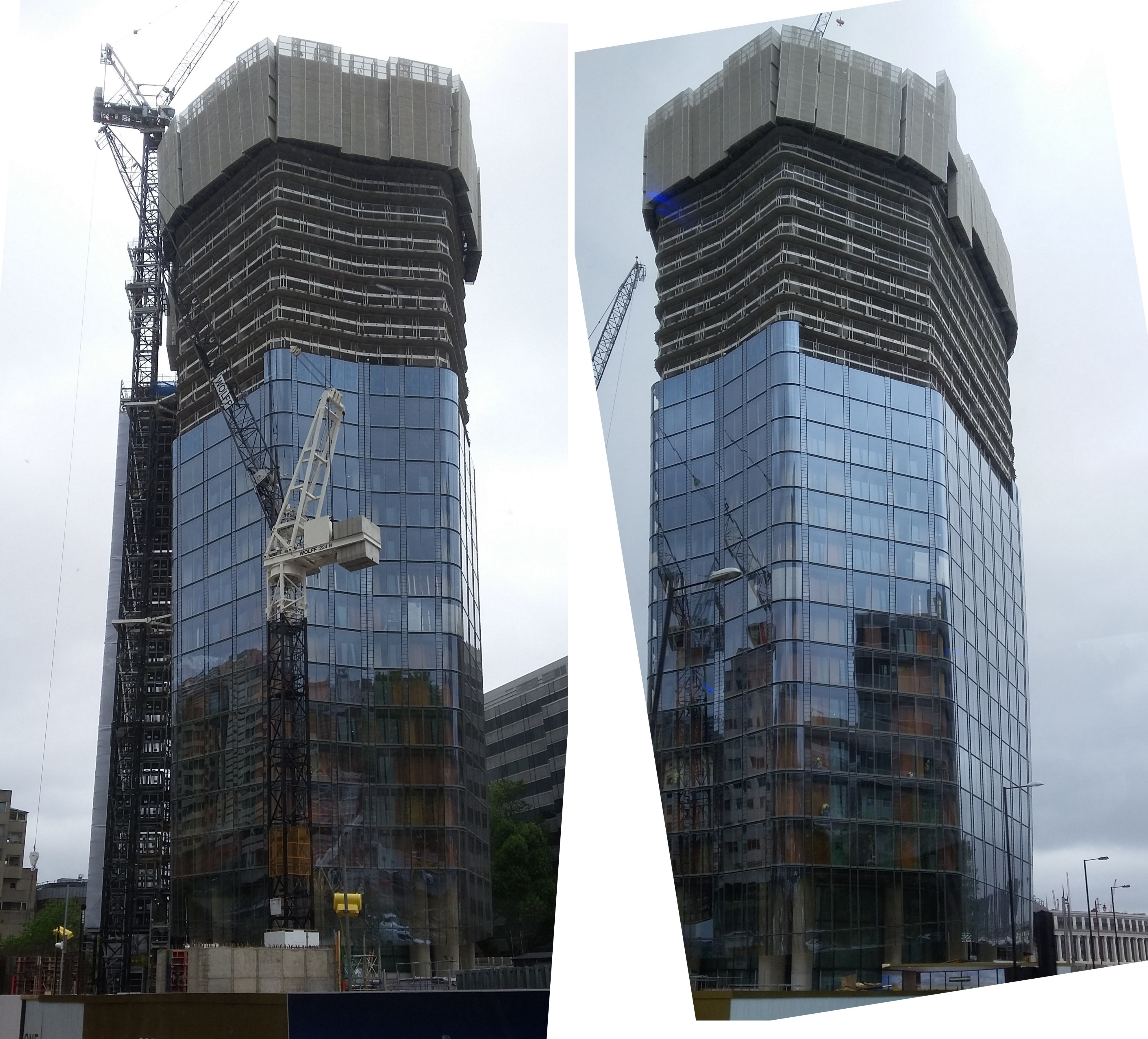 1 Blackfriars (under construction) on 2nd June 2016 (as seen from the south and southwest)